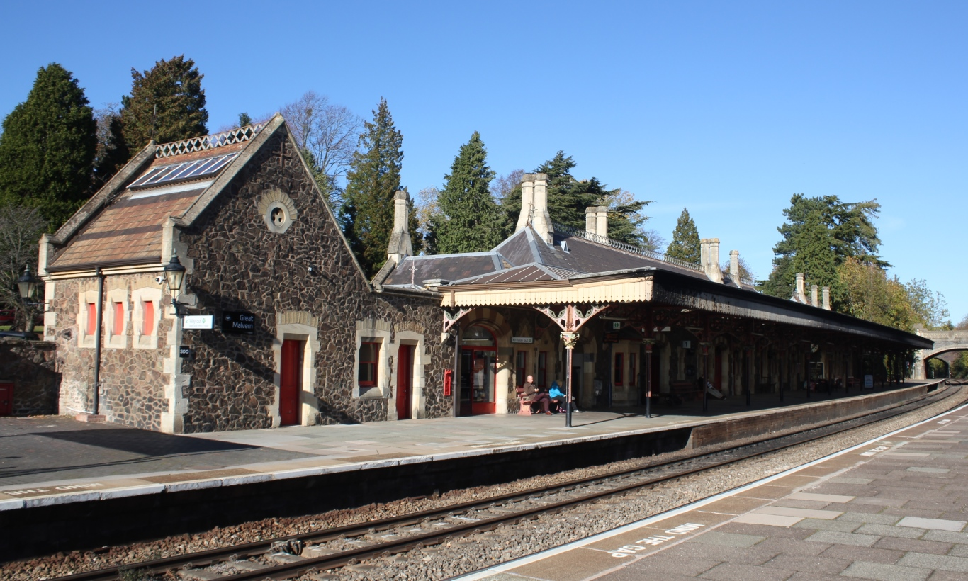 Platform 1 of Great Malvern station is used by trains towards Worcester, most of which continue to either Birmingham or London.